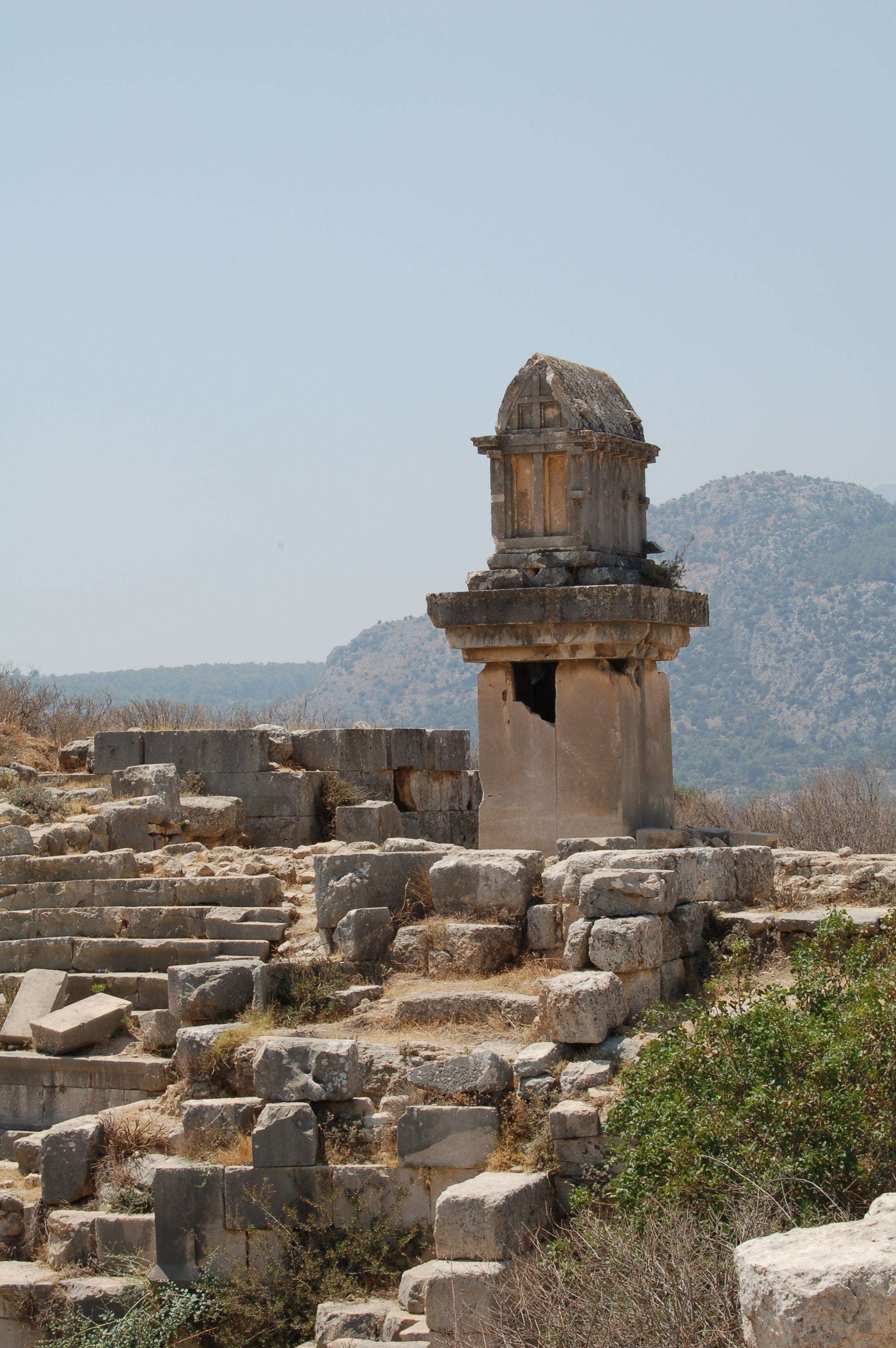 Lycian sarcophagus at Xanthos, Turkey